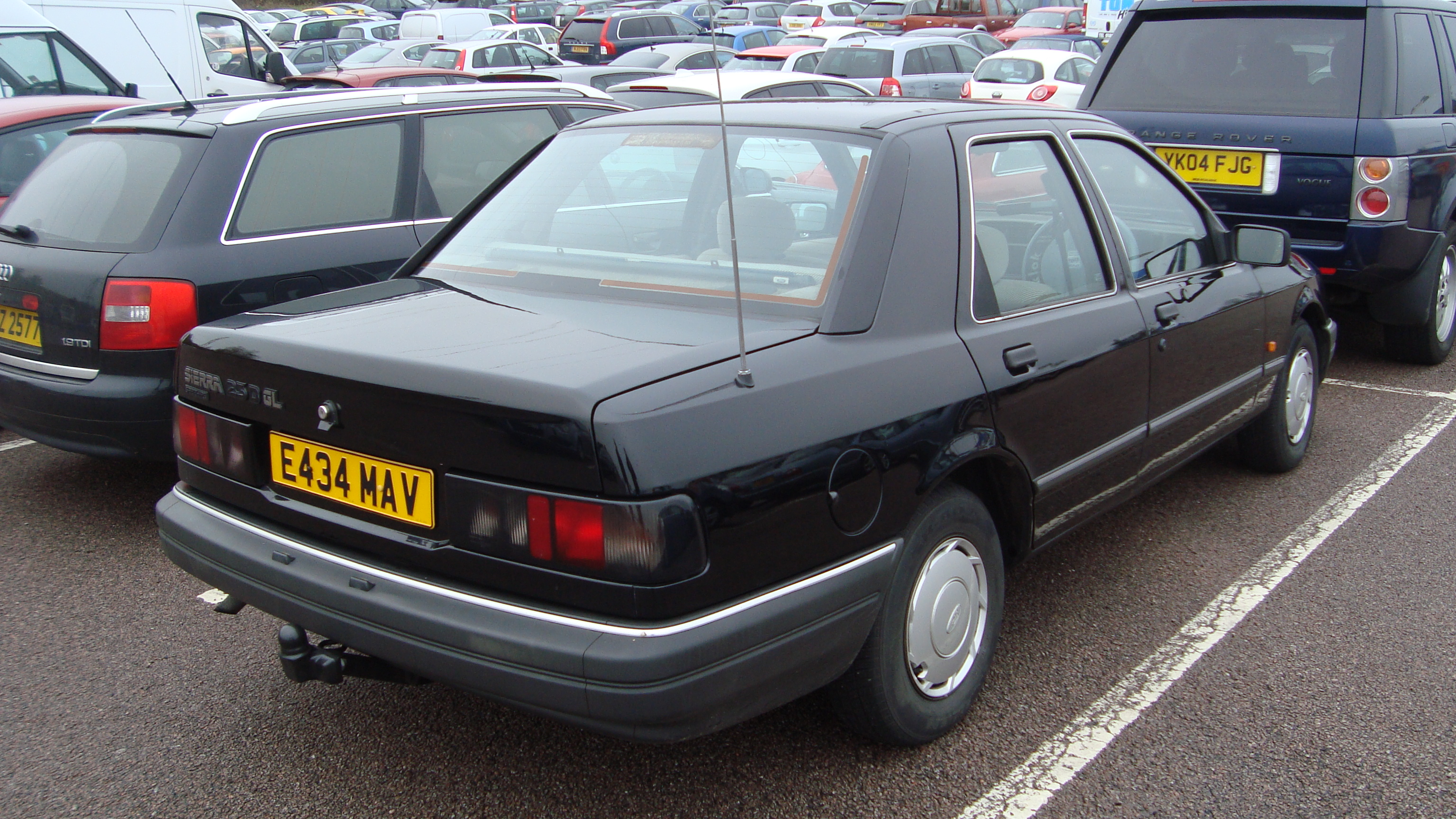 A lovely car but personally I'd ditch the smoked back lights